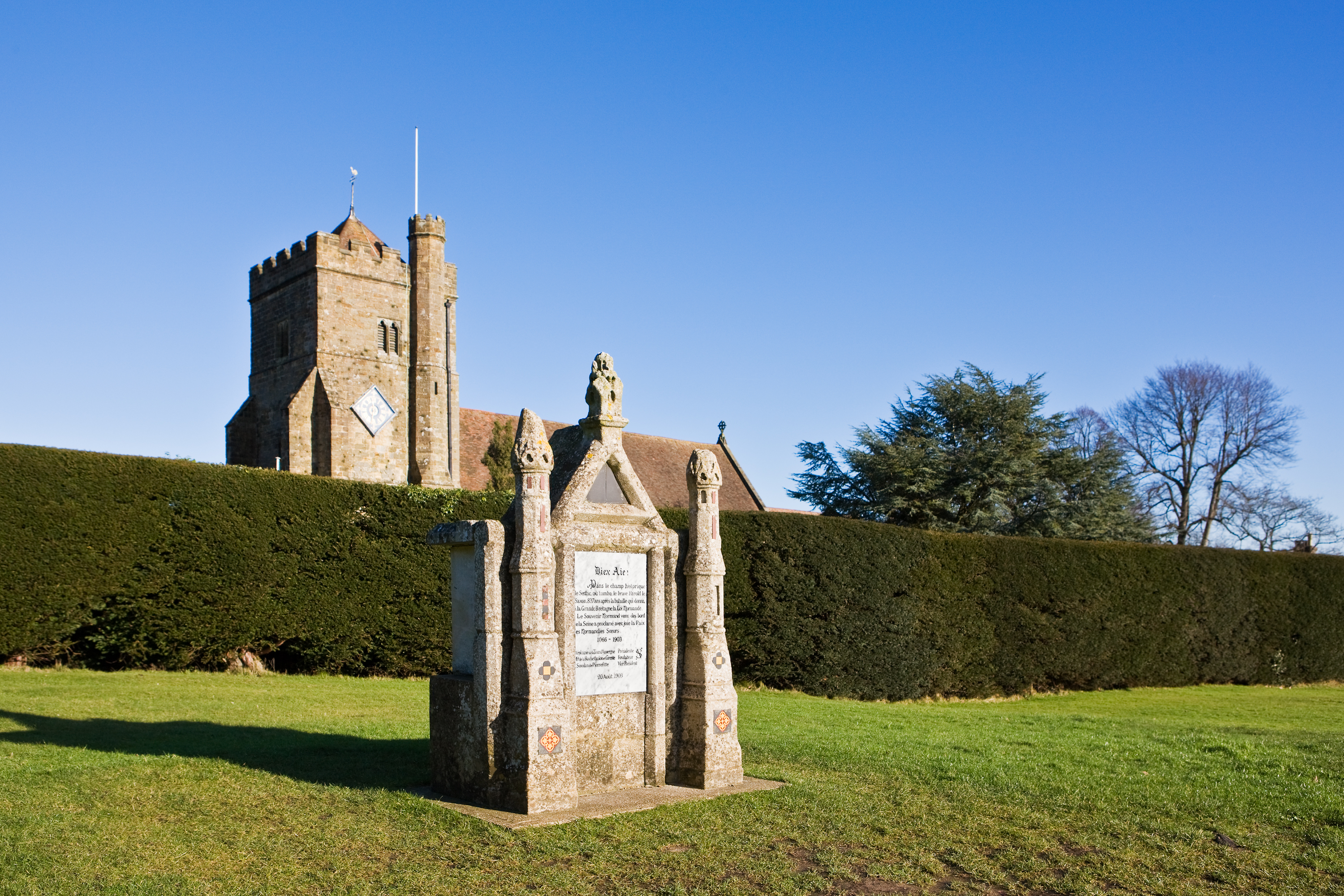 Battle Abbey - French monument to Harold